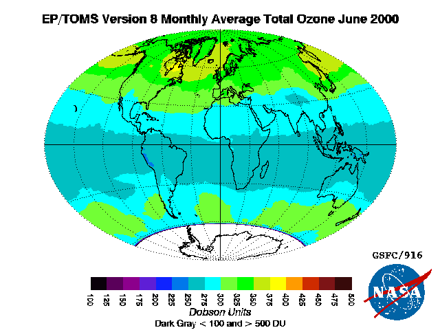 Downloaded from ftp://toms.gsfc.nasa.gov/pub/eptoms/images/monthly_averages/ozone/IM_ozavg_ept_200006.png. Total ozone column for June 2000 as measured by the EP-TOMS instrument.